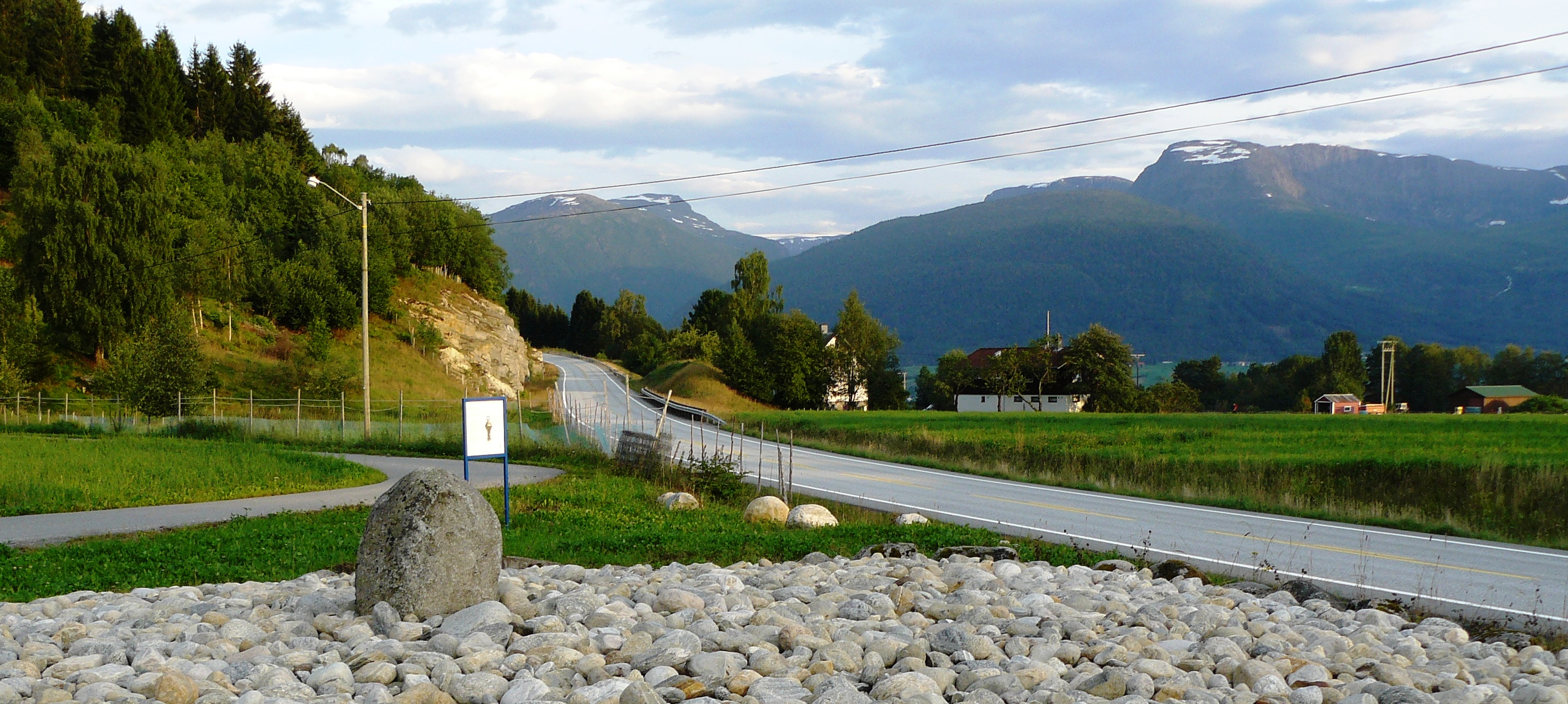 Vereide, Norway - Archaeological grave site